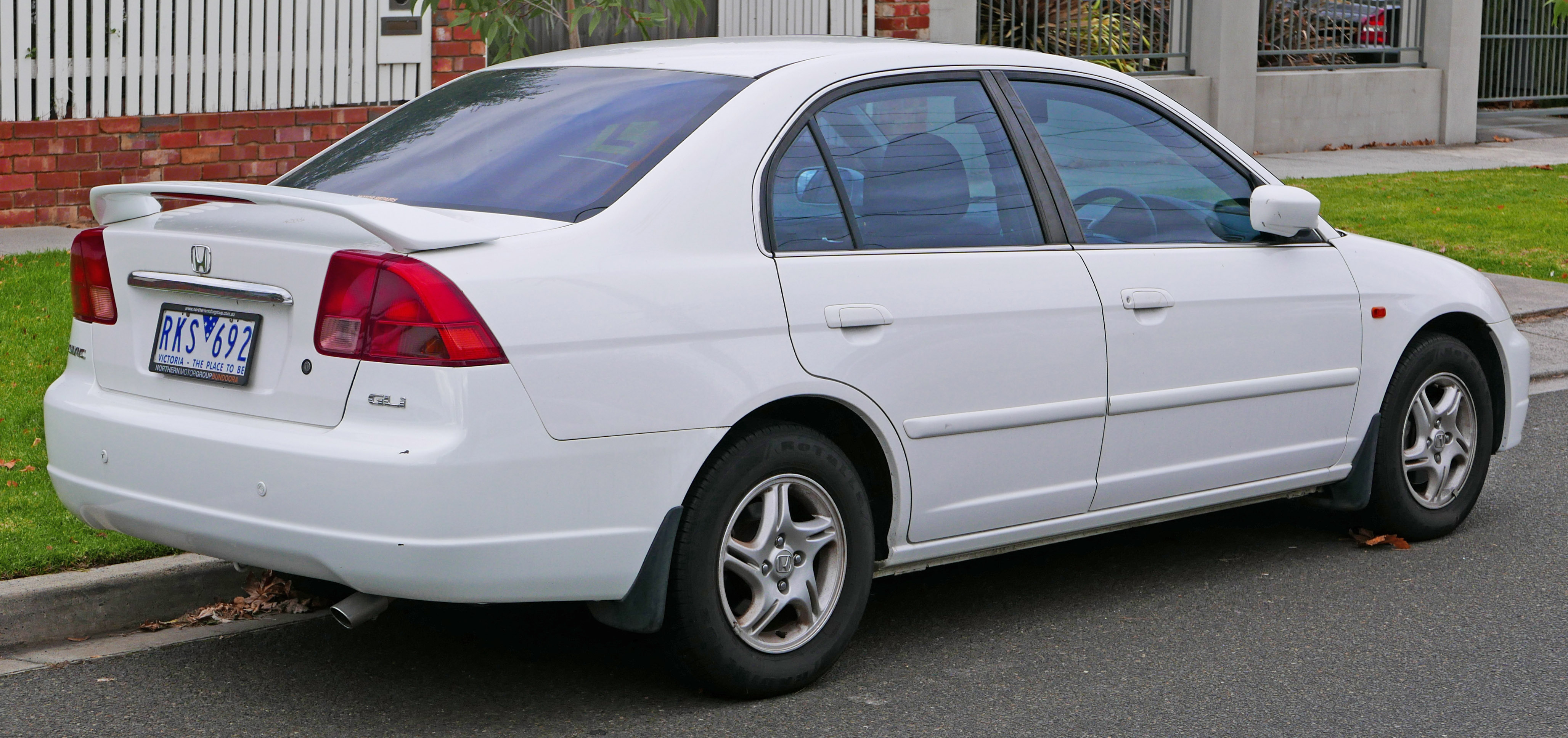 2002 Honda Civic (MY02) GLi sedan. Photographed in Fairfield, Victoria, Australia. Vehicle registration enquiry resultsJurisdictionVictoriaRegistrationRKS692Chassis codeMRHES16502P040187Engine codeD17Z12910247Compliance date2002-01Year of manufacture2001 (not a typo)